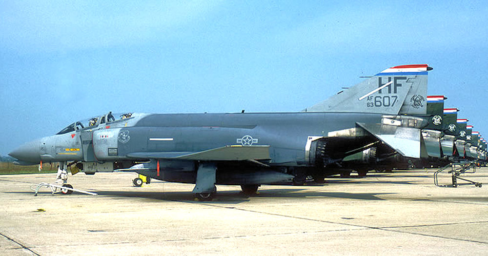 113th Tactical Fighter Squadron - McDonnell F-4C-20-MC Phantom 63-7607. Later modified as EF-4C Wild Weasel flak suppression aircraft. Retired to AMARC as FP0733 Aug 14, 1991. Sold to Fritz Enterprises, Taylor, MI for disposal, Jun 1, 1999